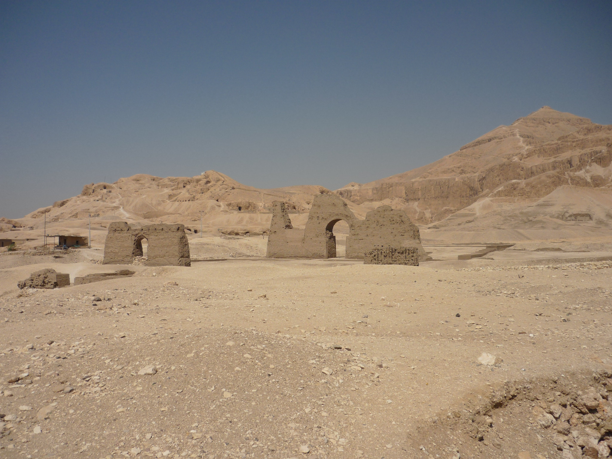 El-Khokha necropolis, Theban Necropolis, Egypt